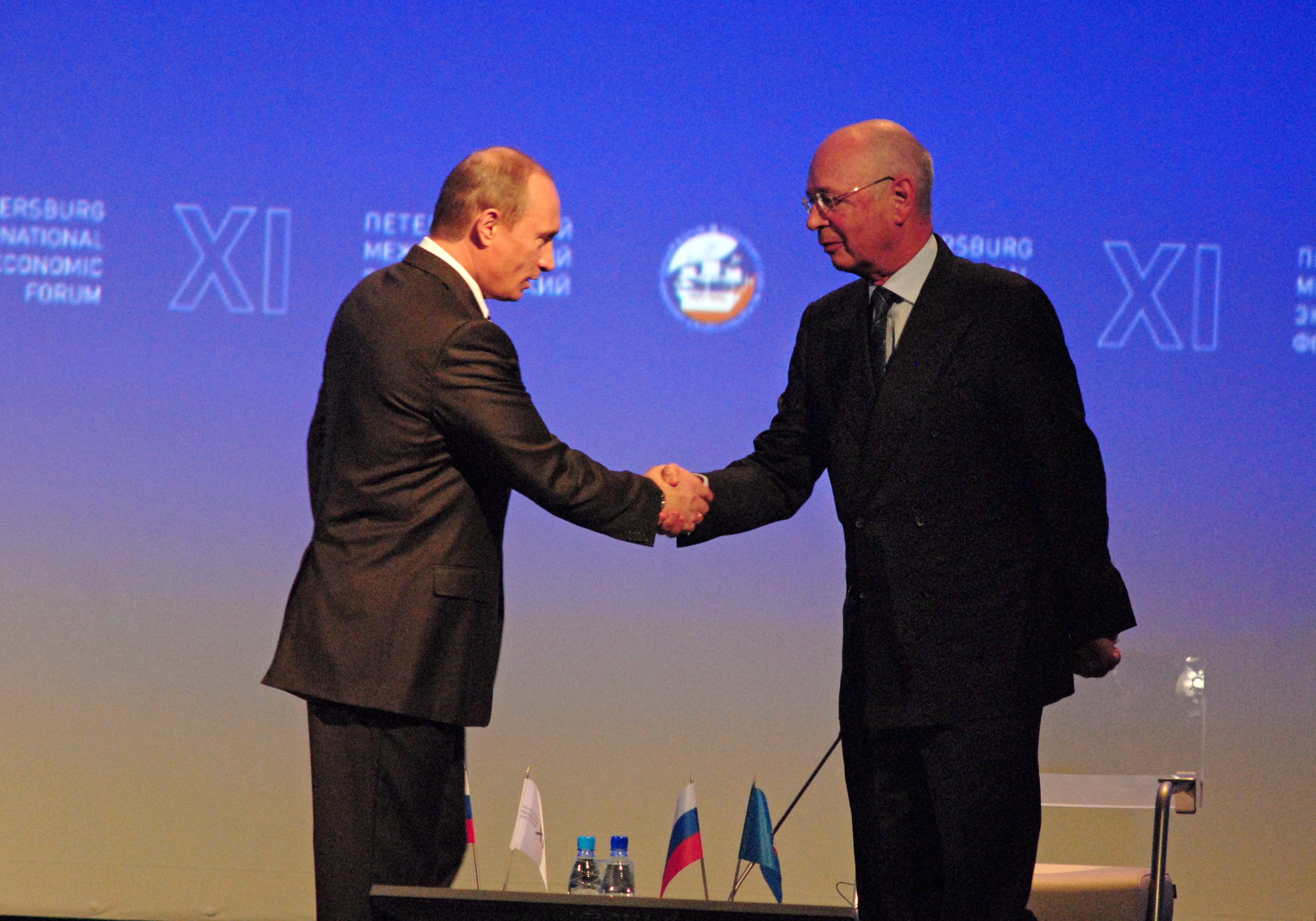 Russian President Vladimir Putin and Klaus Schwab, Founder and Executive Chairman of the World Economic Forum shaking hands at the St. Petersburg International Economic Forum in St. Petersburg. Copyright World Economic Forum Photo Alexander Belenky.